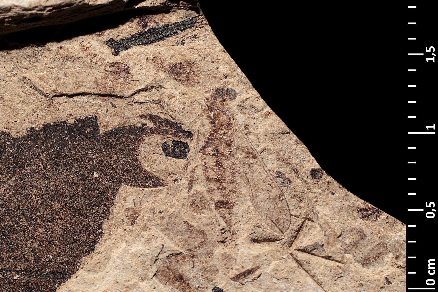 The Tipula (Trichotipula) paicheleri holotype part specimen with direct lighting. Aquitanian, Miocene; Bes-Konak, Anatolia, Turkey Muséum national d'Histoire naturelle specimen MNHN.F.A38735